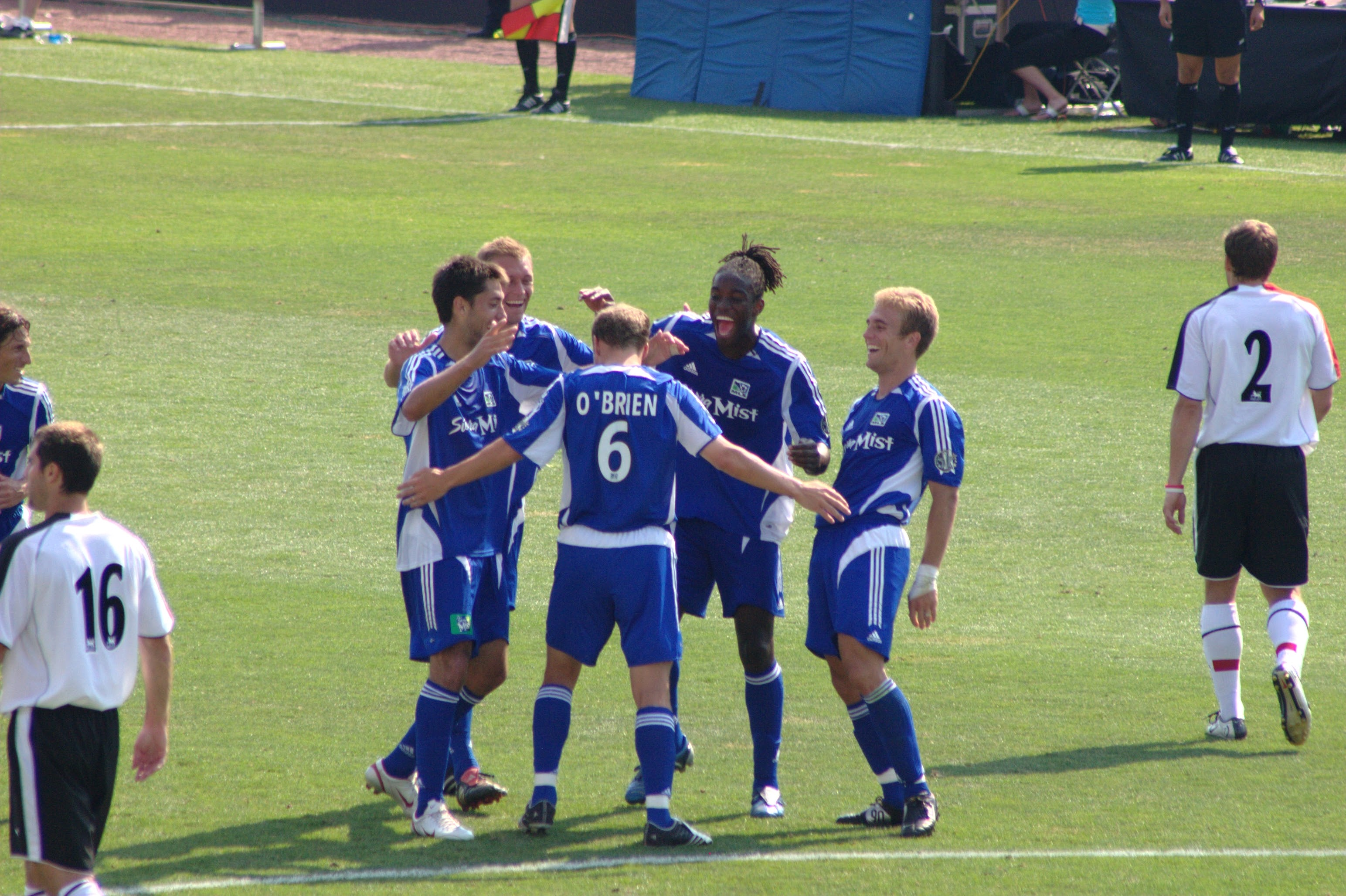 Major League Soccer All-Stars celebrate a goal in the MLS All-Star Game, July 30, 2005, at Columbus Crew Stadium, by Rick Dikeman